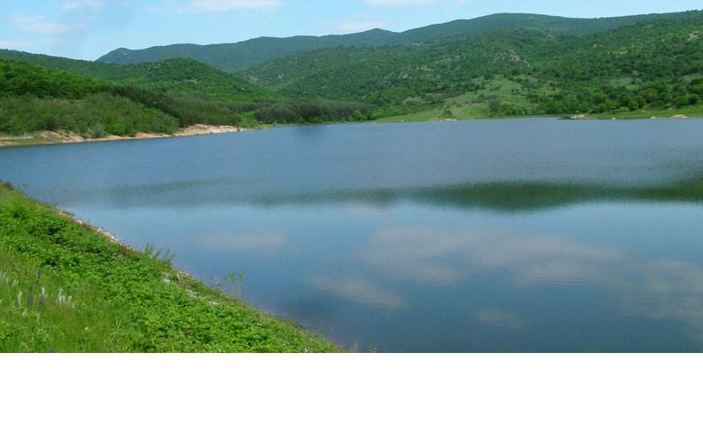 reservoar Dondukovo